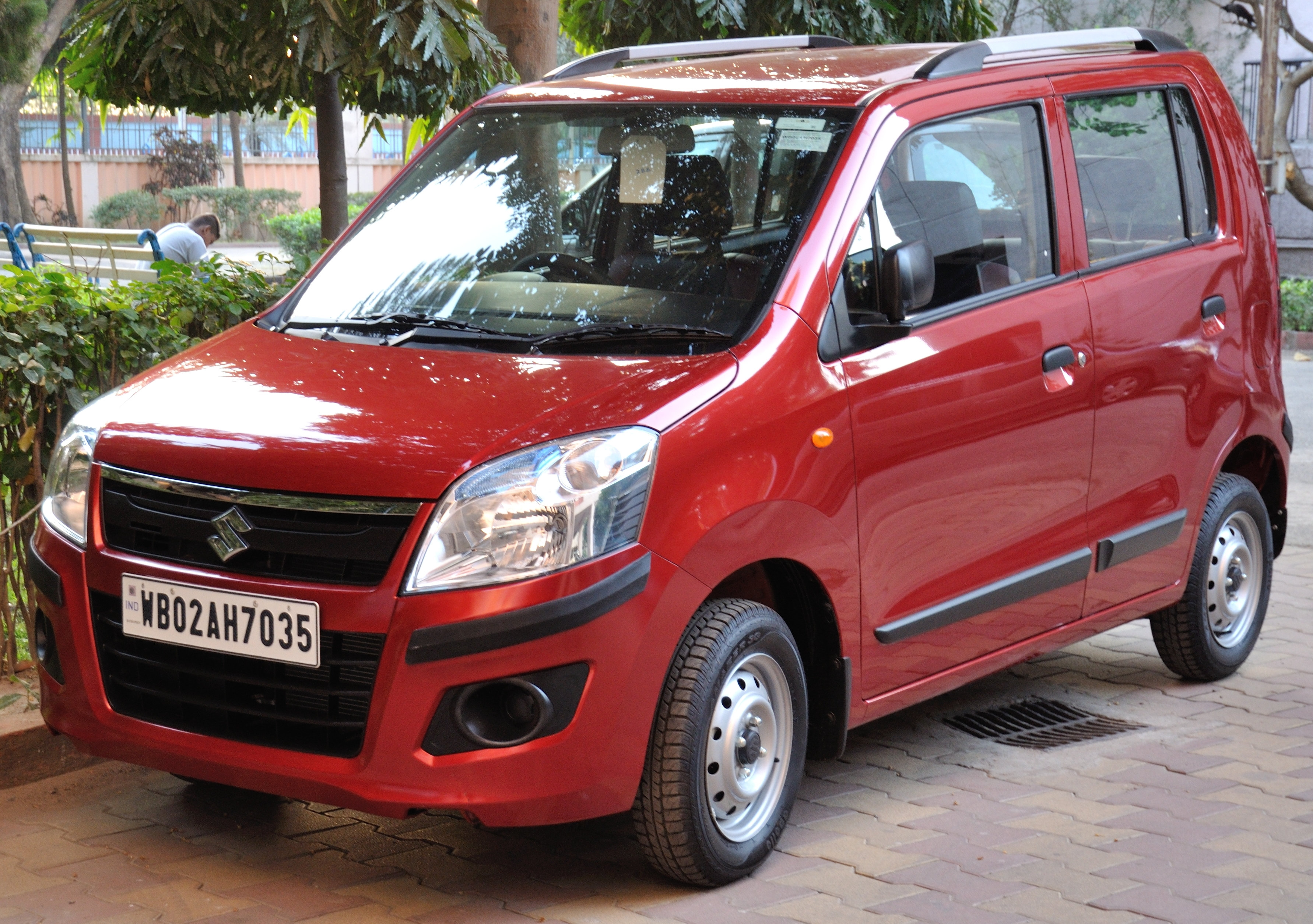 This photograph was taken in Kolkata.